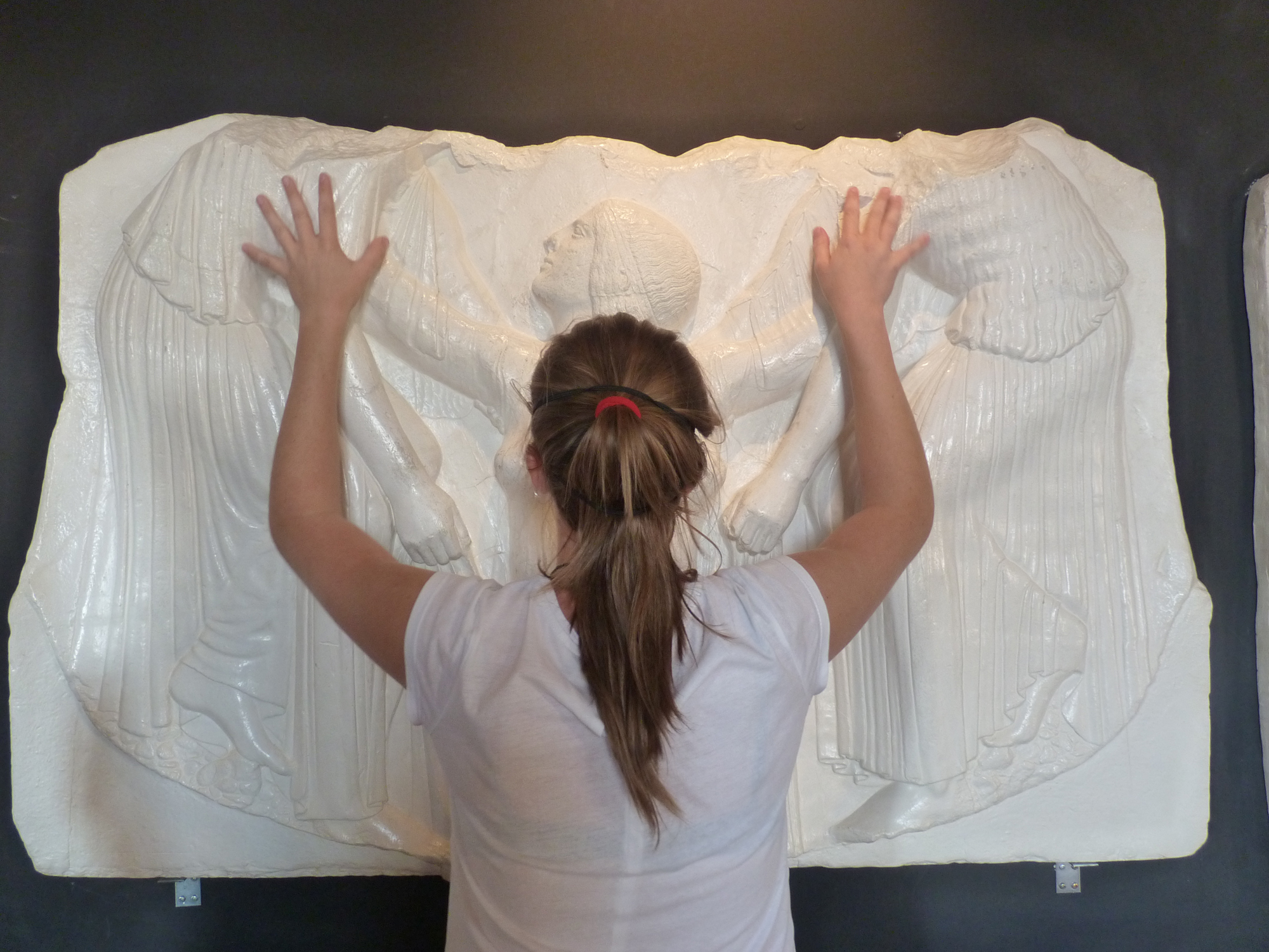 Greek sculpture of the Homer State tactile Museum